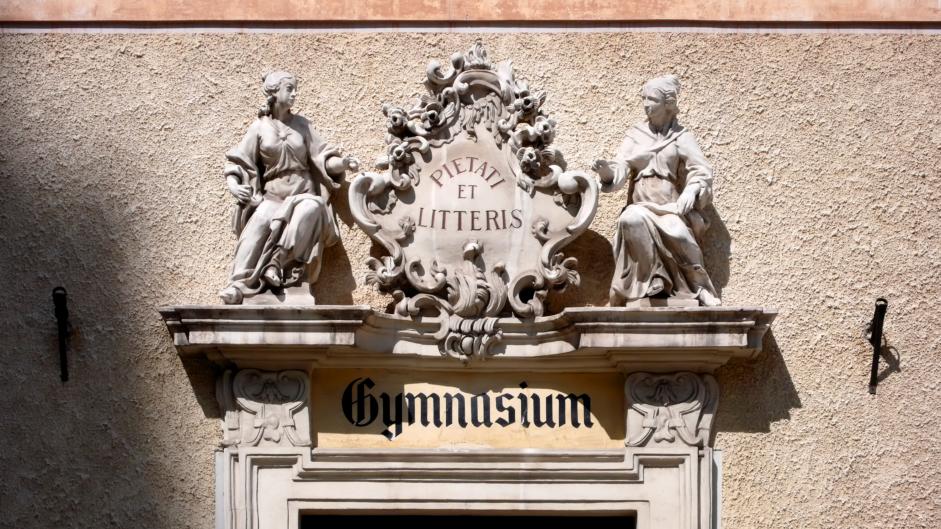 Bundesgymnasium Wien 8 in Vienna Josefstadt